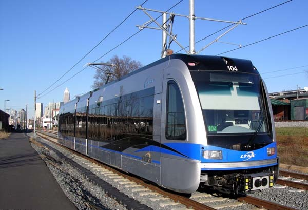 LYNX Blue Line, Siemens-built S70 car #104 near the East/West Boulevard station in Charlotte, North Carolina